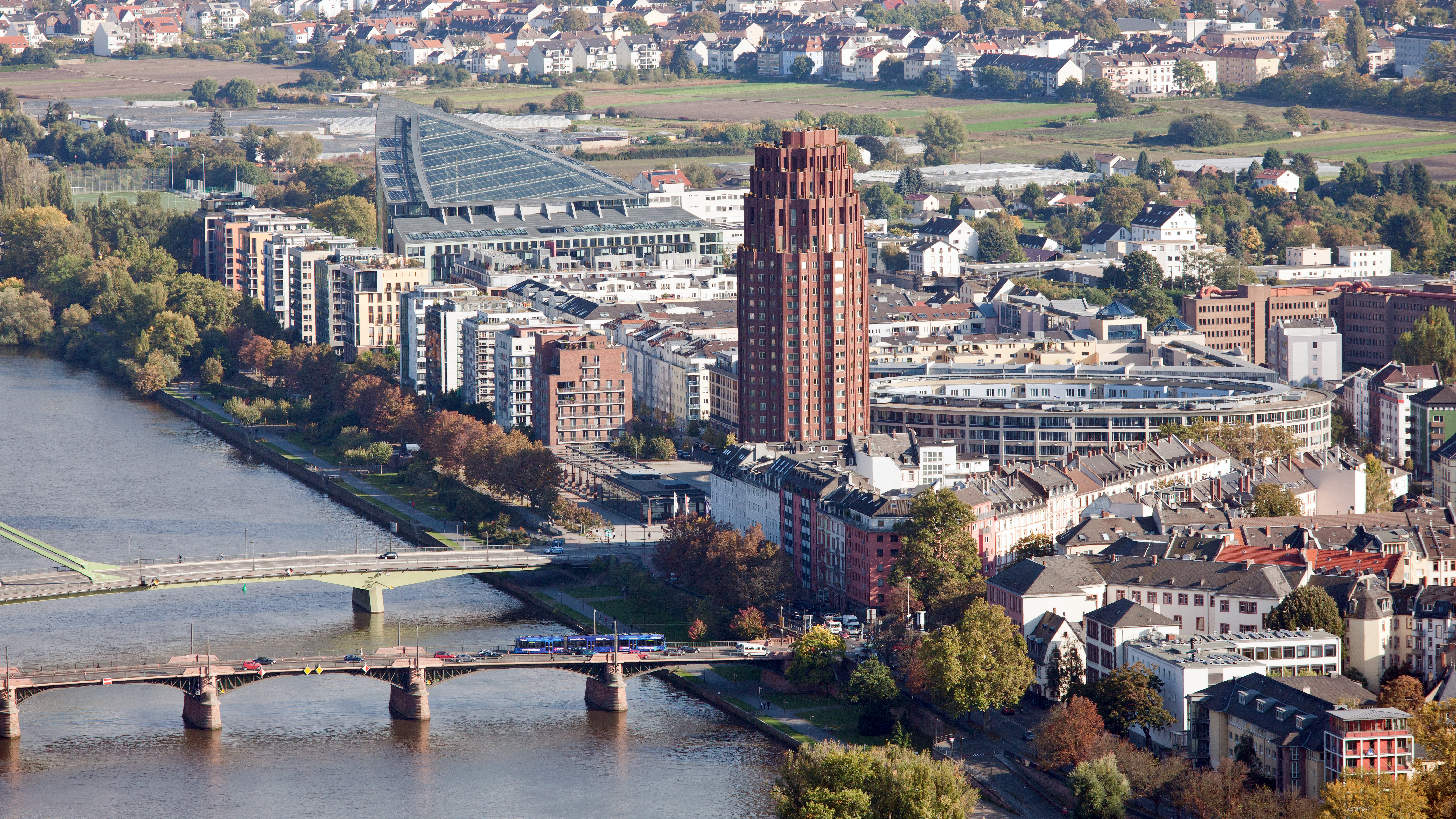 Frankfurt on the Main: Deutschherrnviertel (Deutschherrn Quarter) as seen from the Main Tower